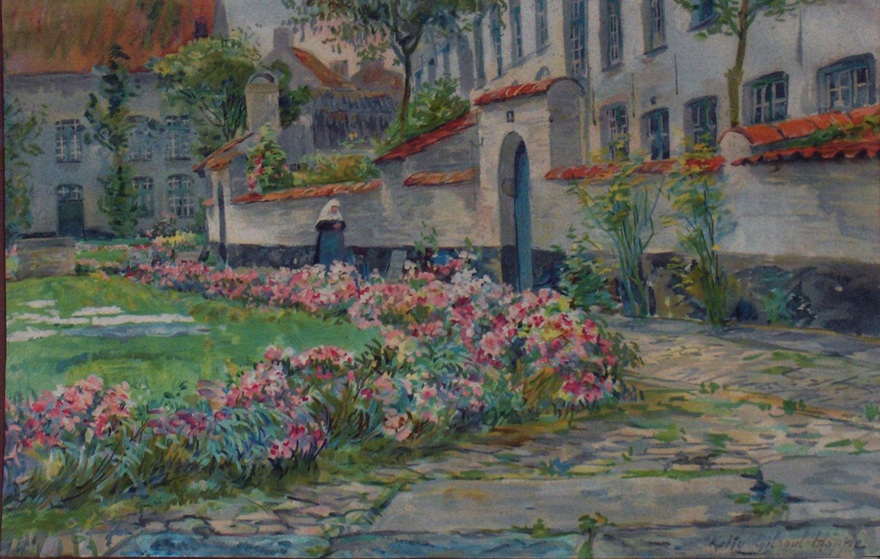 "Beguinage in Dixmude" - aquarelle by Ketty Gilsoul-Hoppe (1868-1939); 34 x 49 cm